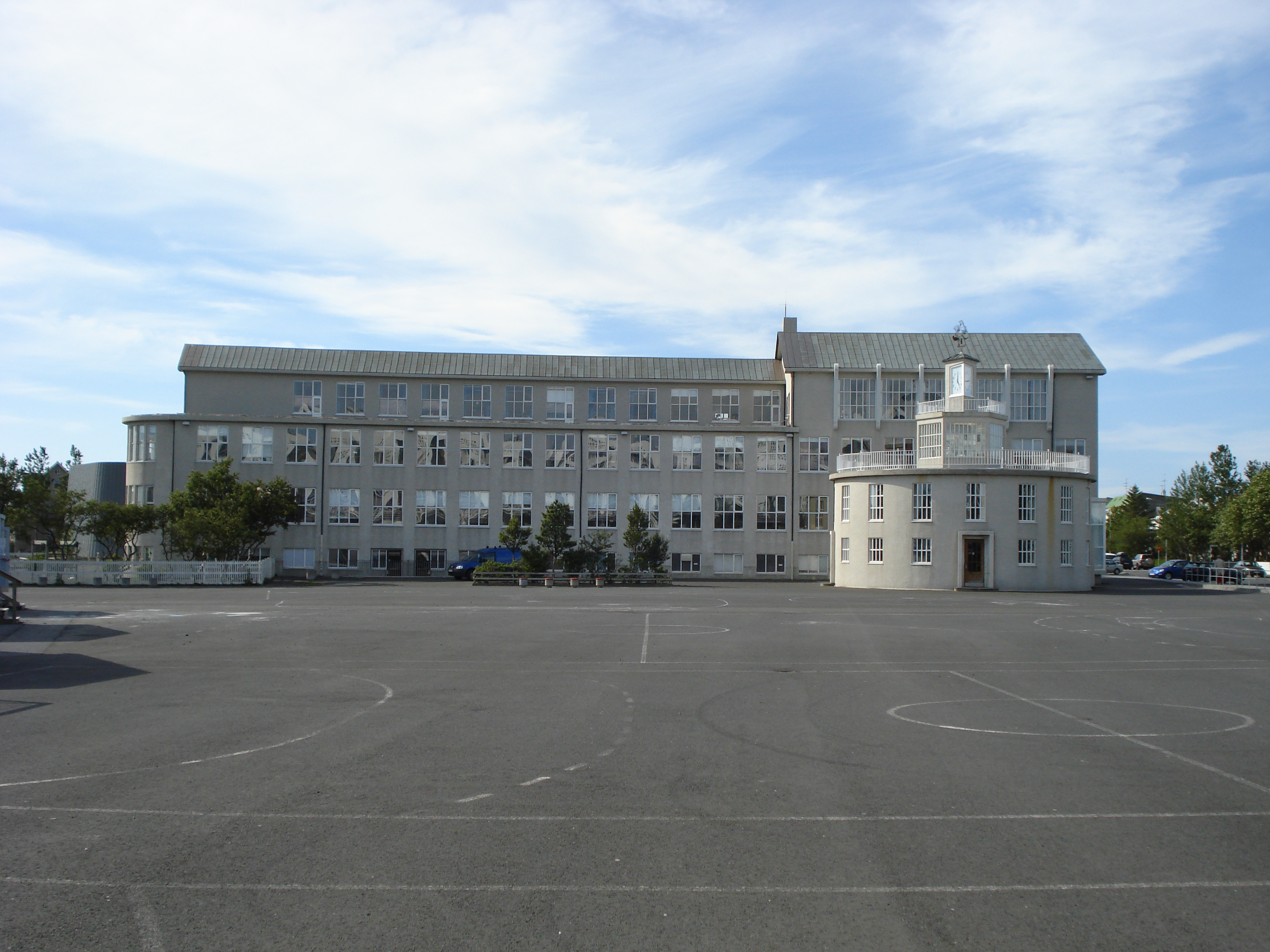 Melaskóli, Primery School, Reykjavik, Iceland